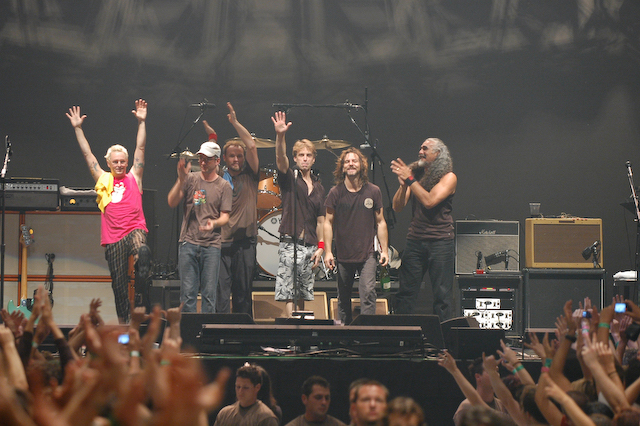 Pearl Jam koncert 2006-ban a bécsi Stadthalle-ban. / Pearl Jam 2006 Stadthalle, Wien